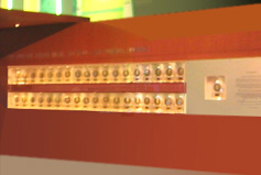 Wall of J.D. Power Awards won by Lexus at the LA Auto Show.